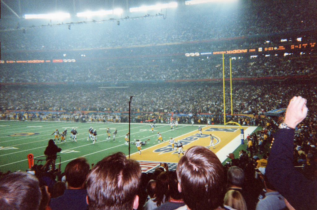 This is the final play of the 2000 Super Bowl. Tennessee is down by a touchdown and the receiver is on the 1 yard line reaching out, reaching out, reaching out for the TD....but no. It was awesome that our seats were at that end of the field, *and* I had bought one of those cardboard cameras!